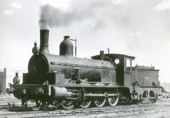 Locomotora 040-2019 "Vilanova"